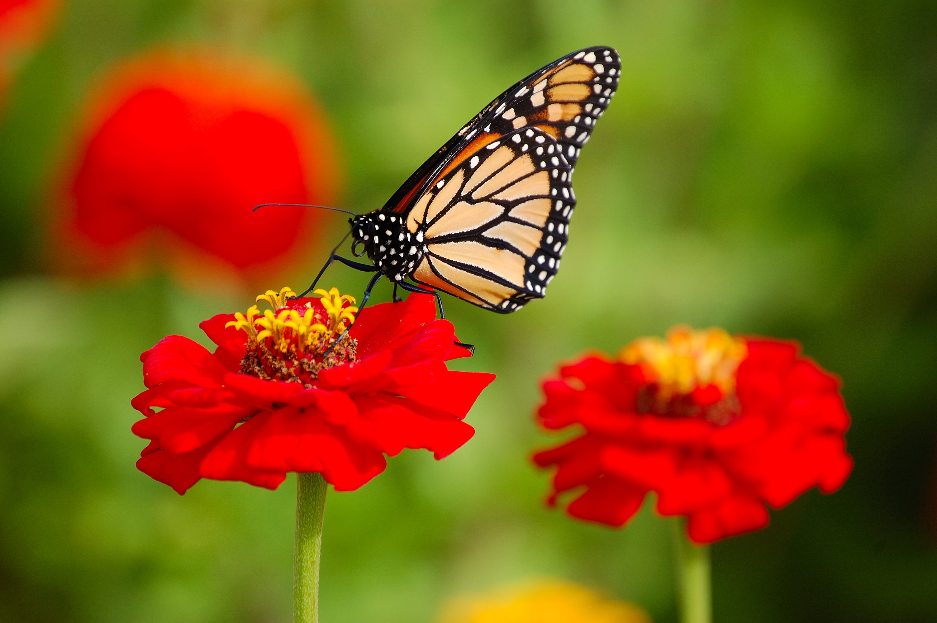 A Monarch Butterfly (Danaus plexippus) on a flower. Foto was taken in a garden near Canterbury in New Hampshire/USA Camera: Nikon D50 Lens: AF-S DX Zoom-Nikkor 55-200 mm 1:4-5,6G ED